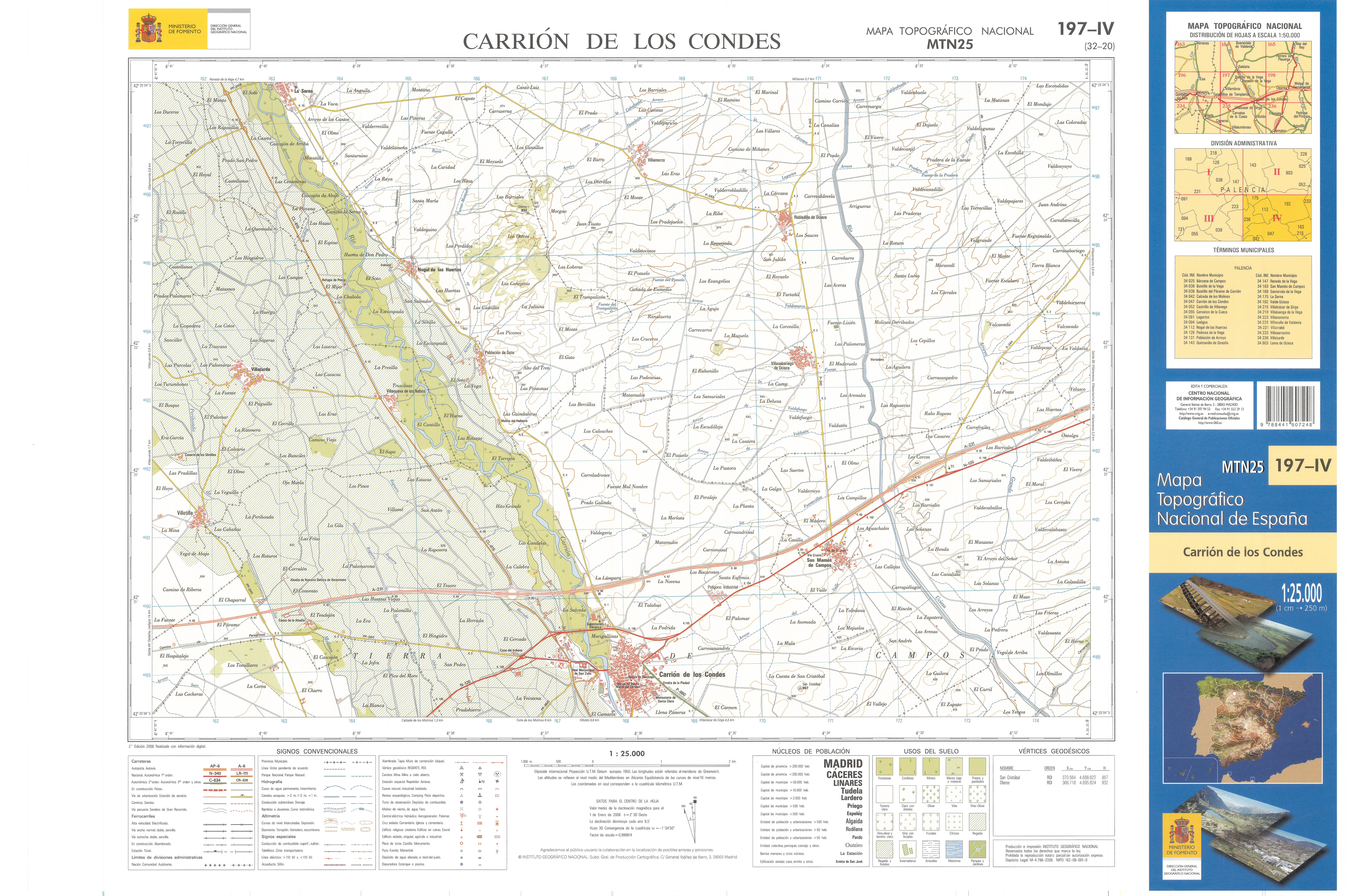 Fragment 0197c4 of the National Topographic Map of Spain in 2008 at a scale of 1:25000 printed and scanned with a resolution of 250 ppi. It shows Carrion de los Condes.